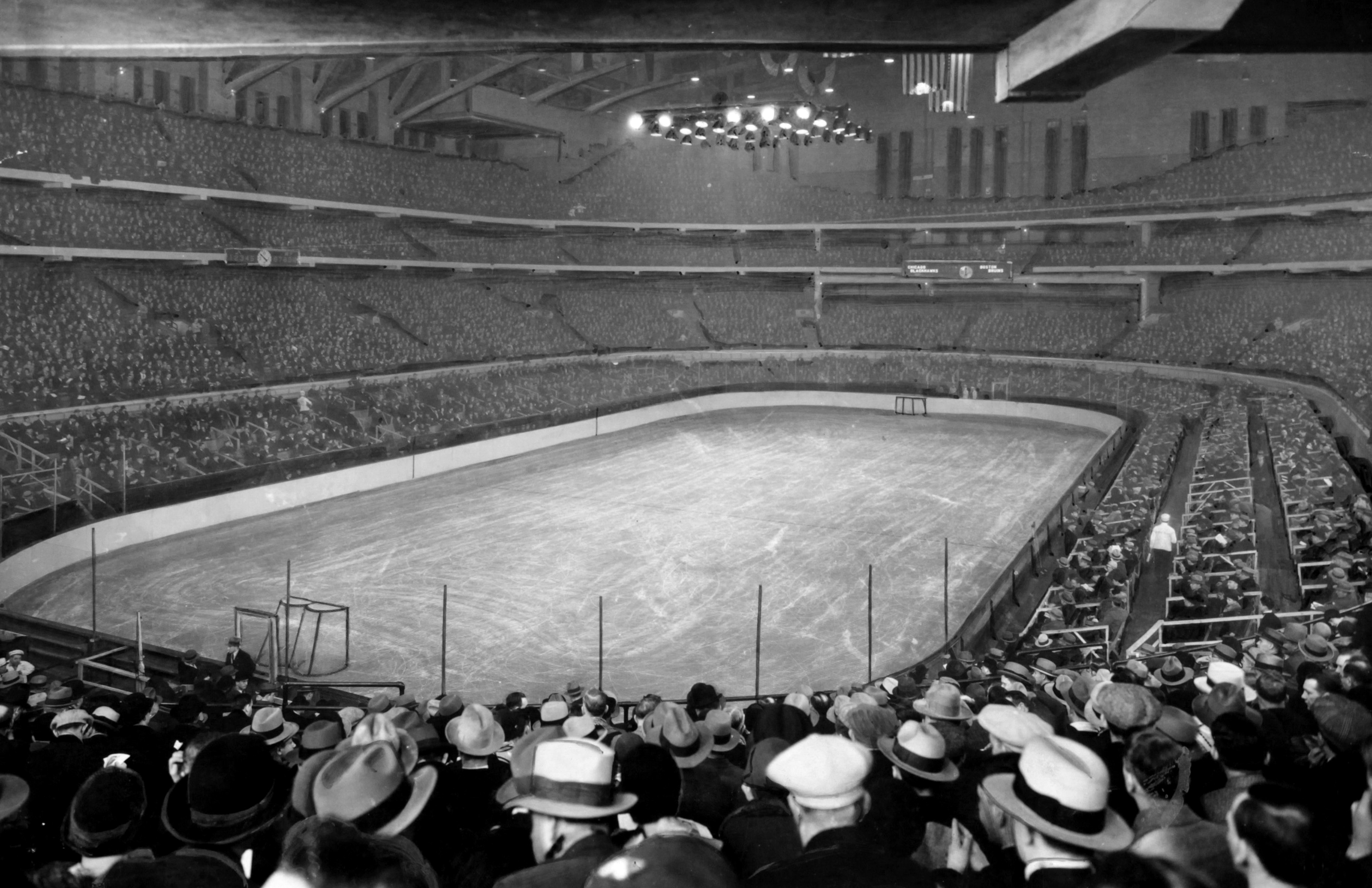 Chicago Stadium prepared for a Chicago Blackhawks game in 1930